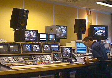 High end linear editing suite, 1999.